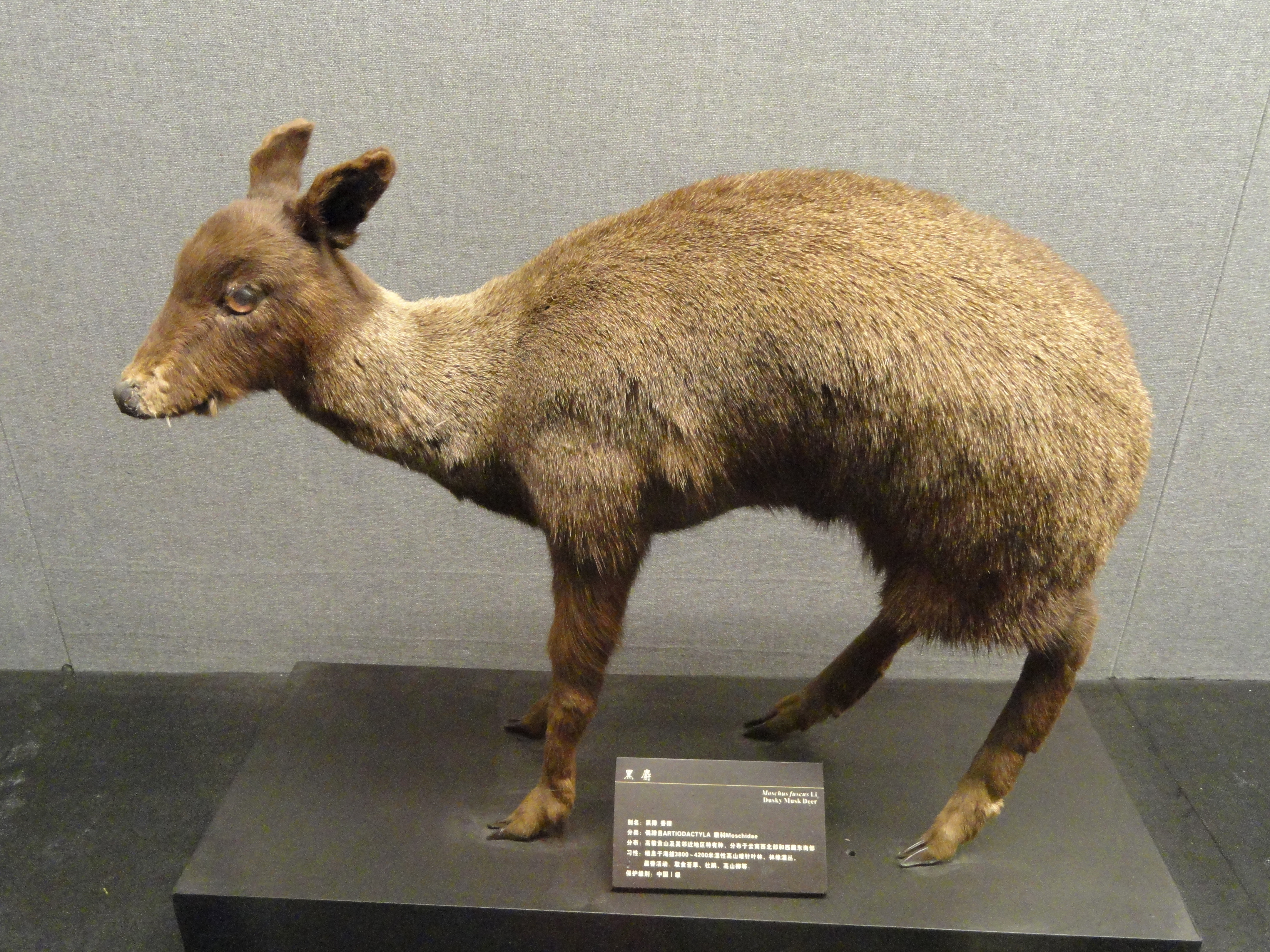 Taxidermy exhibit in the Kunming Natural History Museum of Zoology (昆明动物博物馆), Kunming, Yunnan, China.